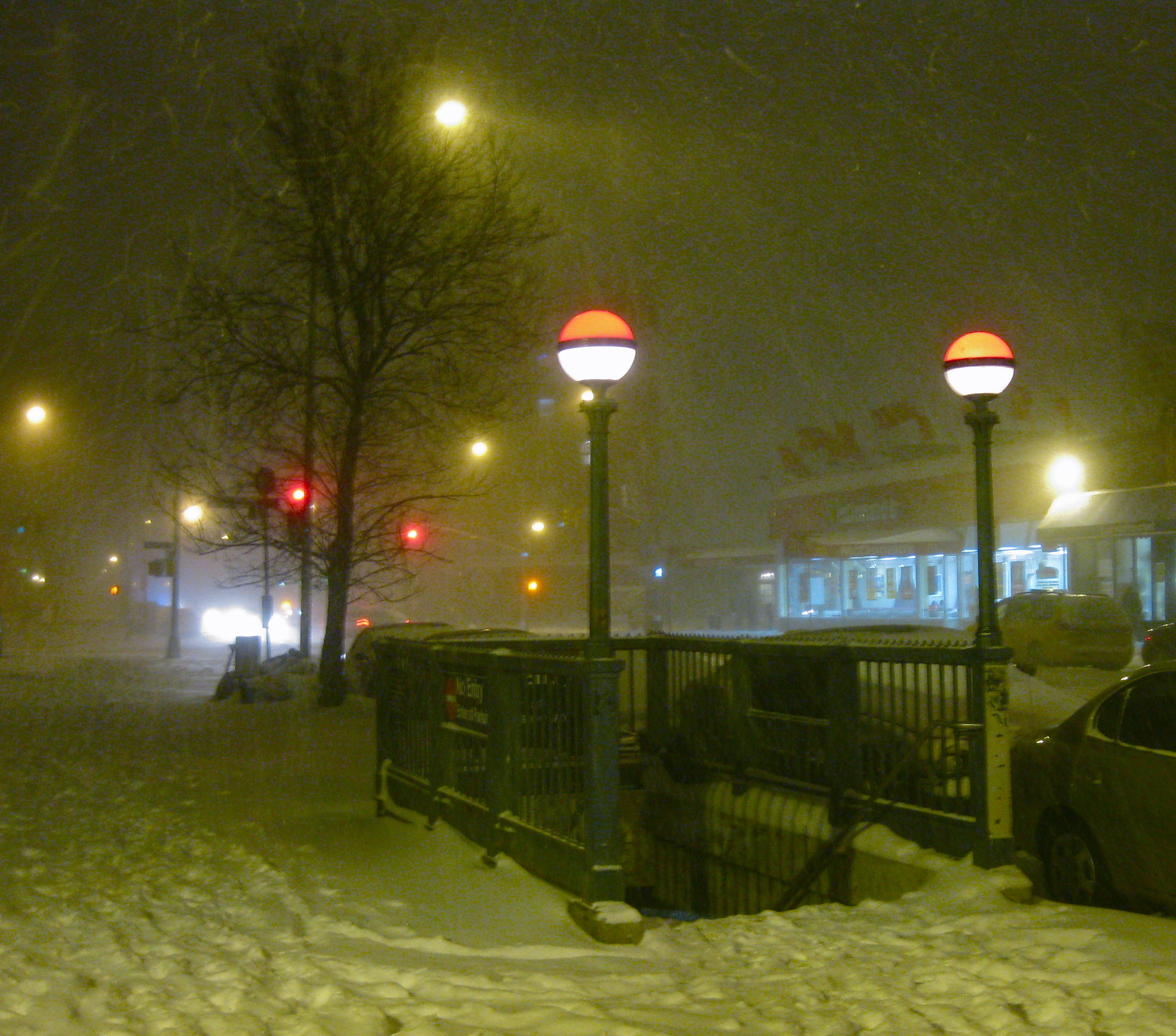 Holiday in the Heights show tonight was great! Although the snow did keep some of the crowd away. Caught this shot on the walk home. Then I went to the park to make snow angels :)